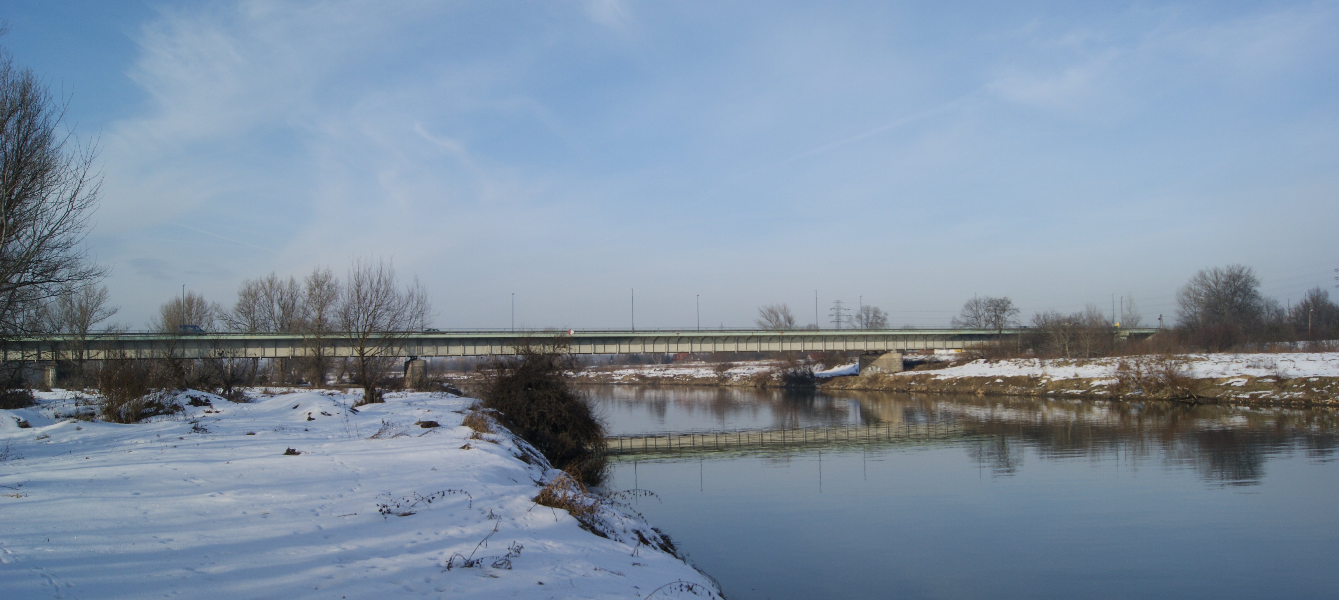 Nowohucki bridge,Nowa Huta,Krakow,Poland